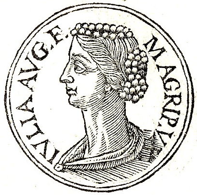 Julia the Elder was the daughter and only natural child of Augustus.